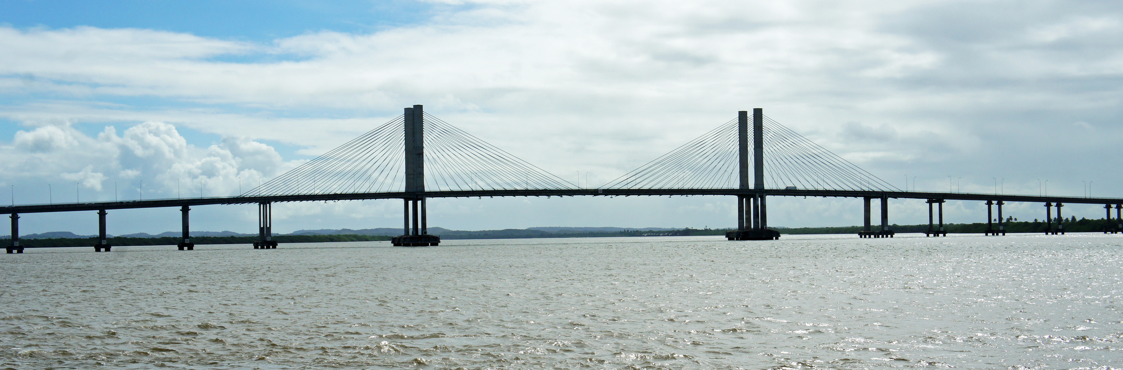 Panoramic view of João Alves bridge, Aracaju, Sergipe, Brazil.